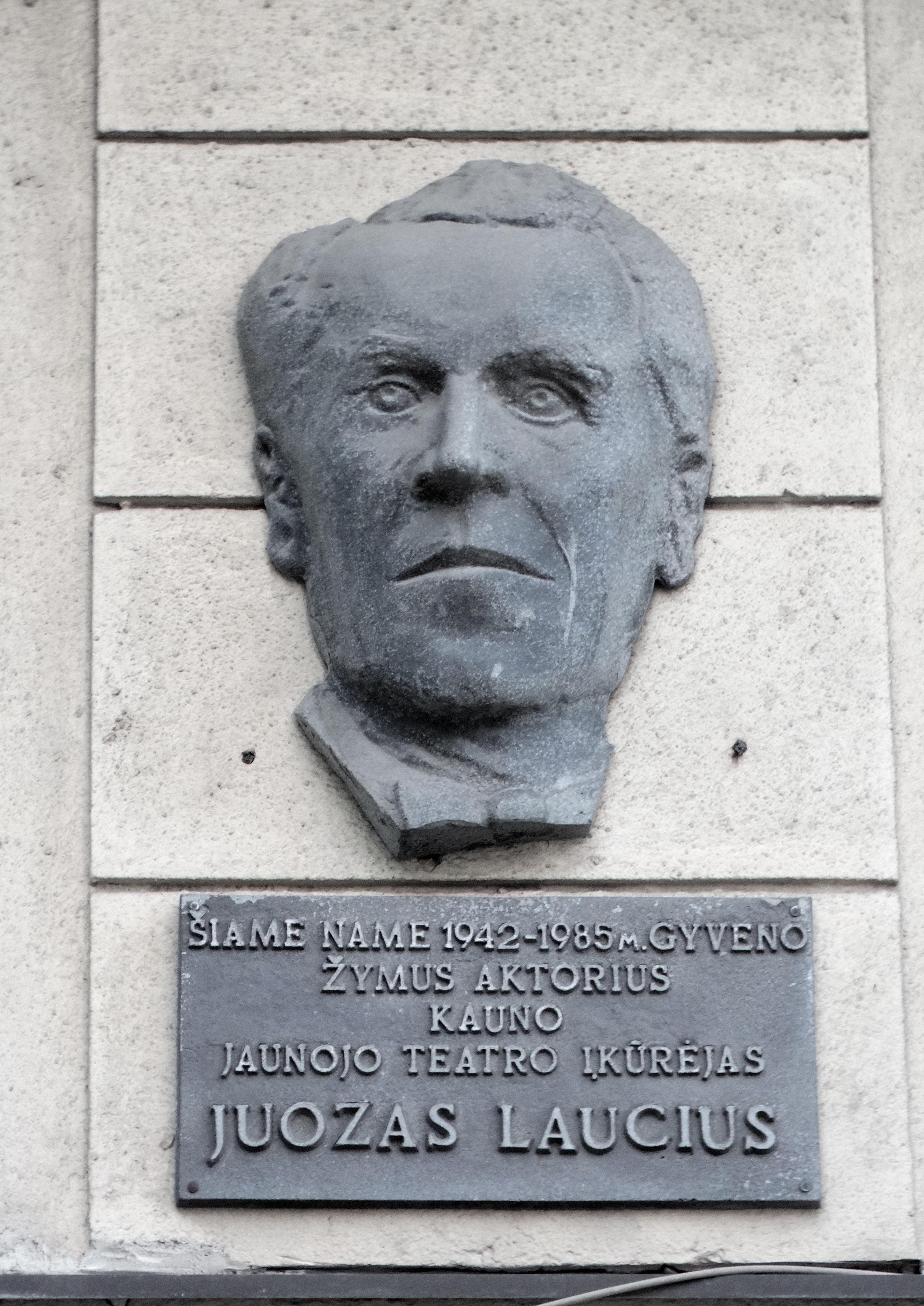 Memorial plaque to Juozas Laucius, Žemaičių g. 42, Kaunas, Lithuania